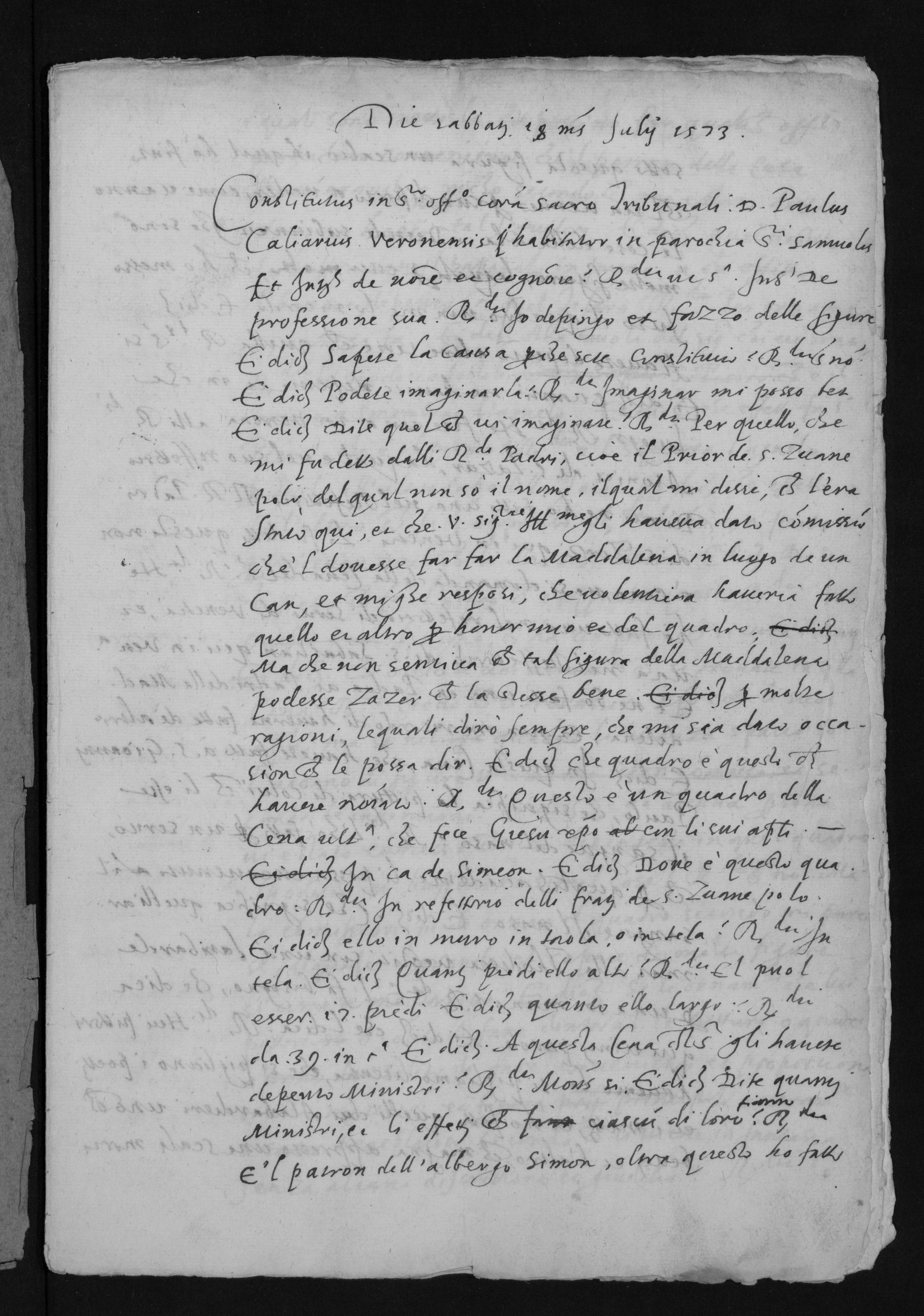 Transcript of Veronese Inquisition page 1